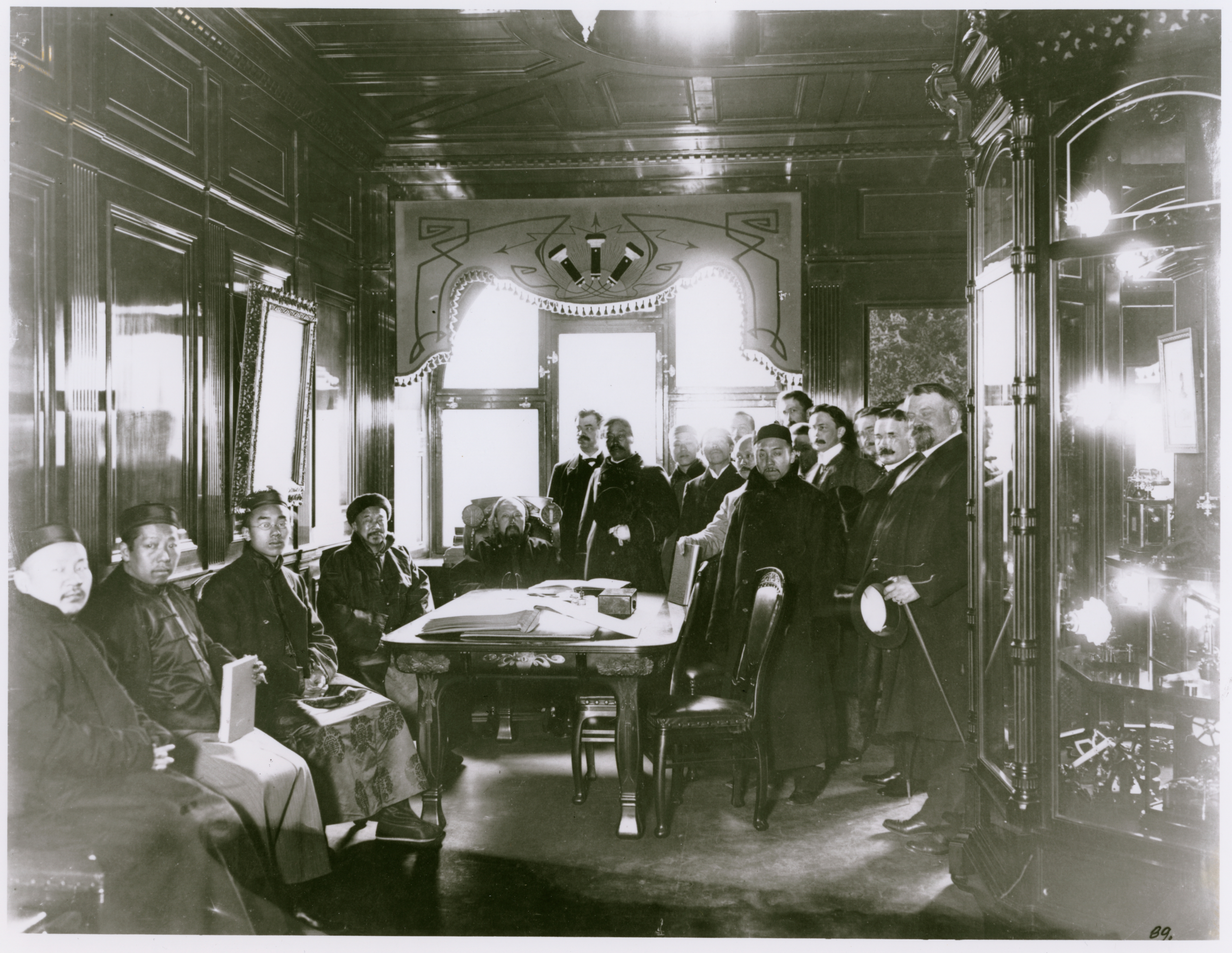 Kinesiska studiekommissionen på besök i LM Ericsson&Co:s minnesrum på Tulegatan, Stockholm 26 april 1906.